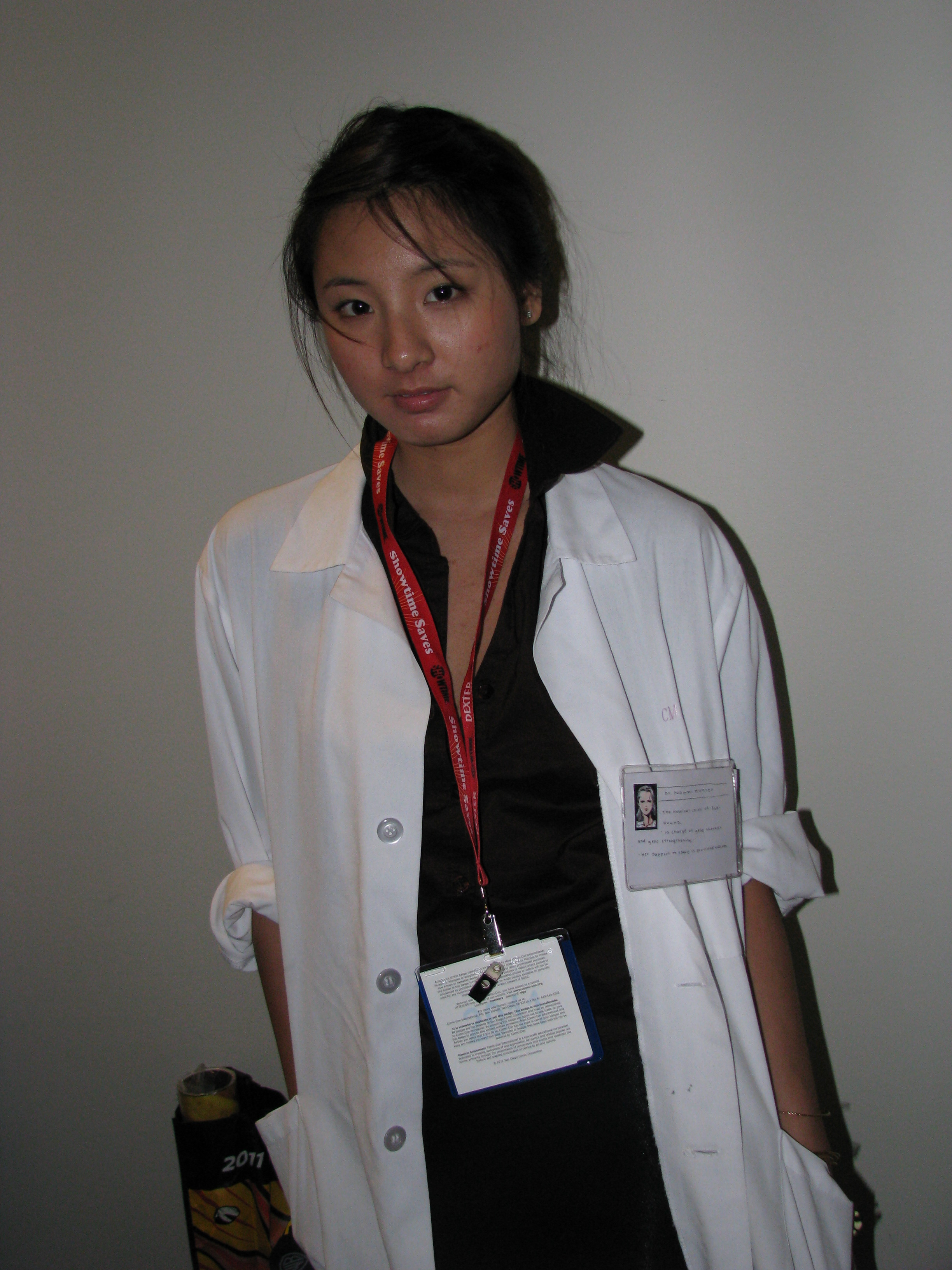 Cosplay of Dr Naomi Hunter (from the Metal Gear franchise) at San Diego Comic Con (SDCC) 2011.